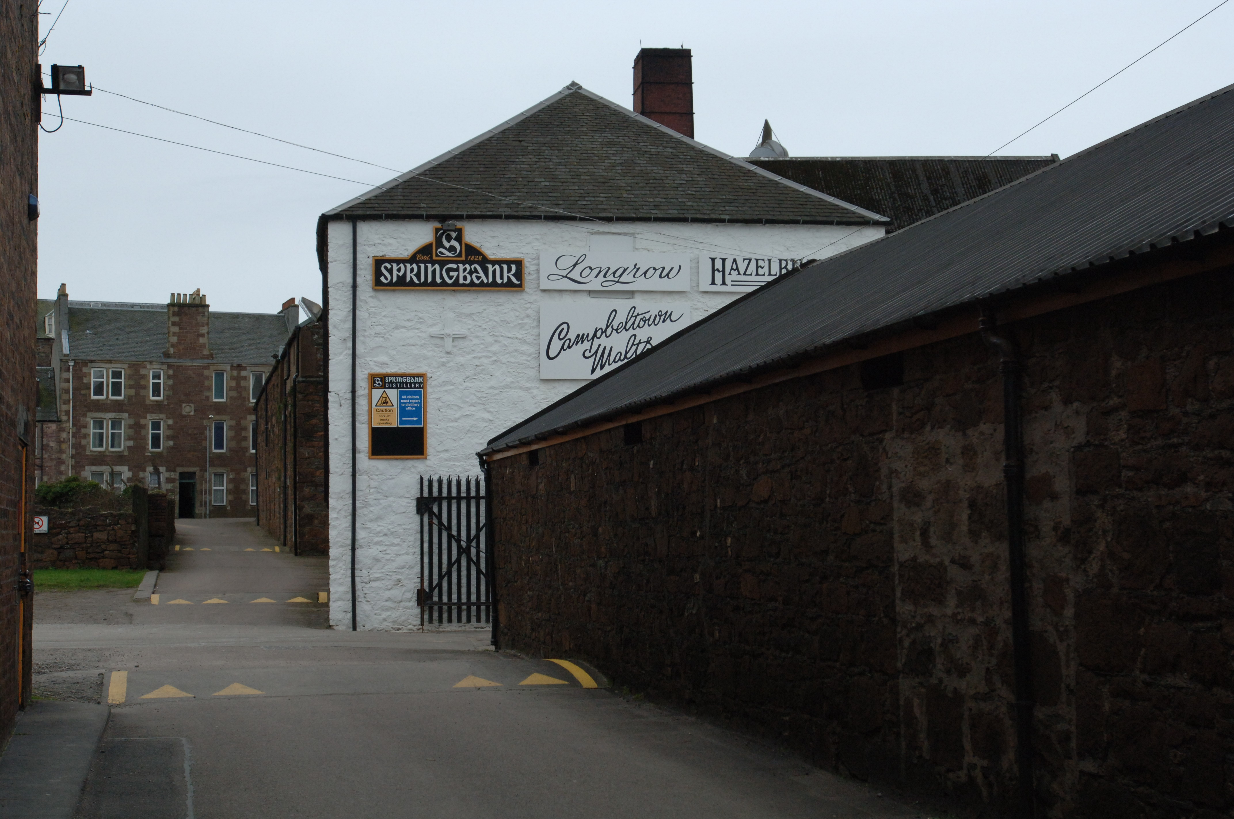 The Springbank Distillery